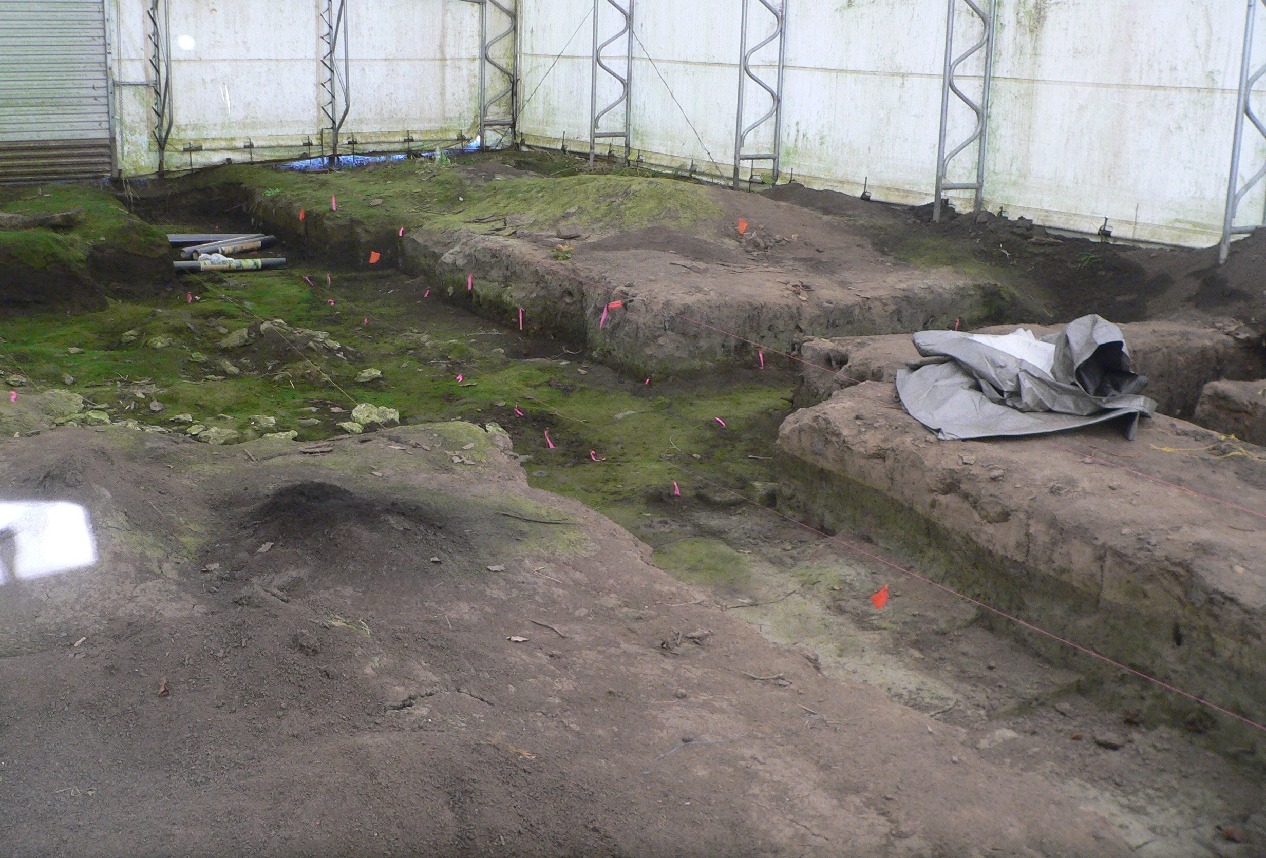 Excavations at site of Engineer Cantonment in southeastern Washington County, Nebraska.